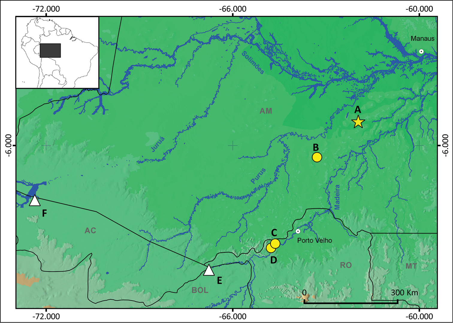 Distribution of Scinax onca sp. n. and Scinax iquitorum in Brazilian Amazonia. Yellow star: A type locality of S. onca sp. n., kilometre 350 of the BR-319 Highway, municipality of Beruri, State of Amazonas. Yellow circles: B paratype locality of S. onca sp. n., Floresta Estadual Tapauá Reserve, municipality of Tapauá, State of Amazonas C–D paratype localities of S. onca sp. n., municipality of Porto Velho, State of Rondônia. White triangles: E record of S. iquitorum near southern distribution of S. onca sp. n. according Melo-Sampaio and Souza (2015), municipality of Plácido de Castro, State of Acre, Brazil F record of S. iquitorum according Machado et al. (2015), municipality of Cruzeiro do Sul, State of Acre, Brazil.